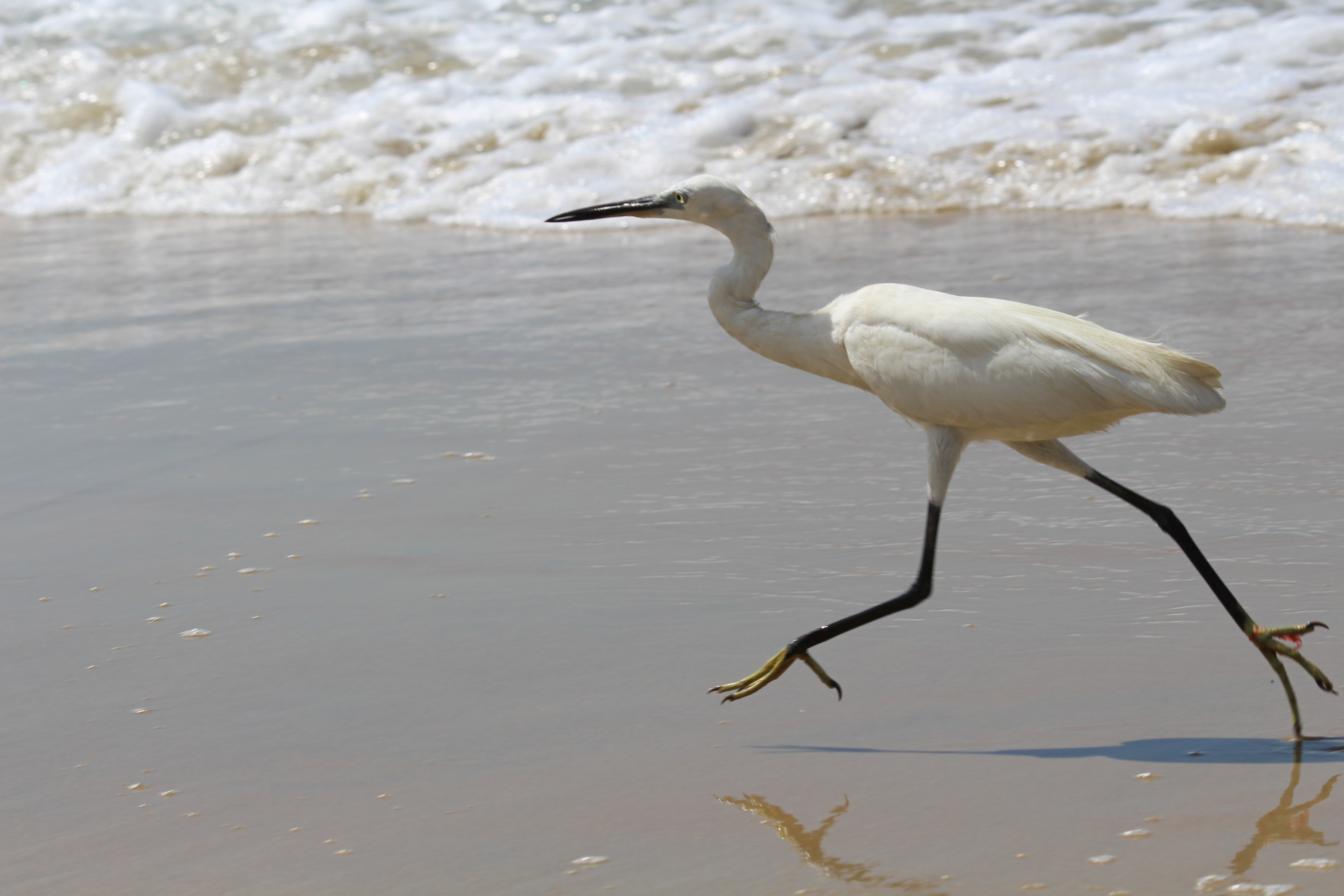 Little egret (Egretta garzetta) at Varkala beach, Thiruvananthapuram, Kerala